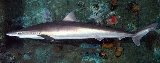 crop of file in file name